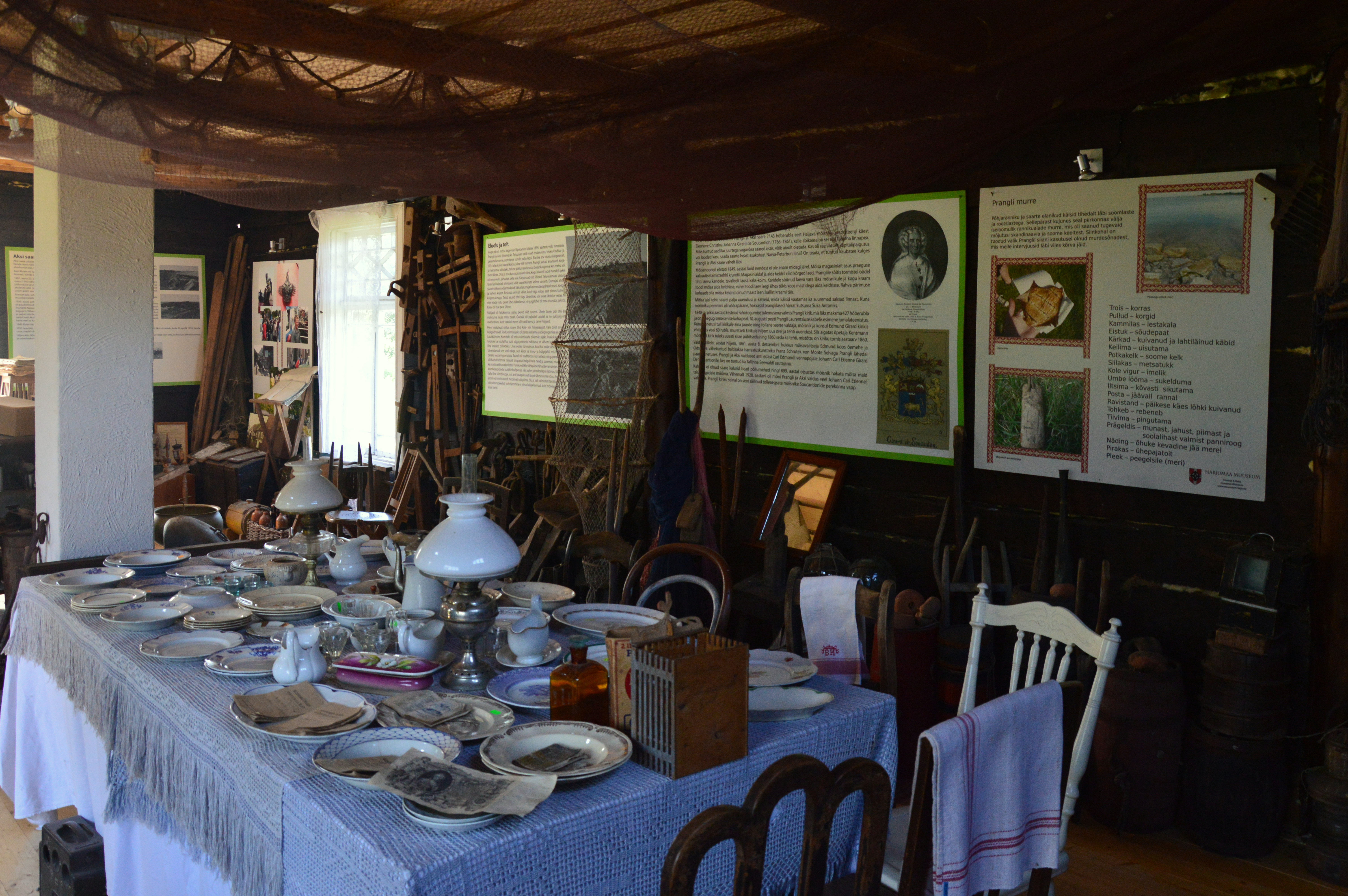 Interior of Prangli Museum.